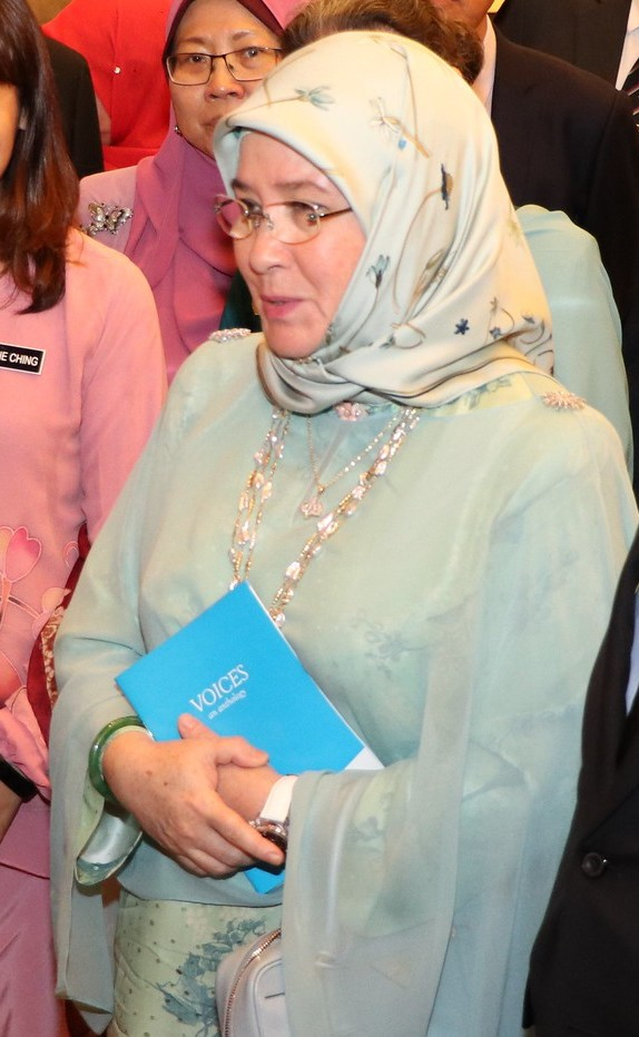 Her Majesty Tunku Azizah Aminah Maimunah Iskandariah, The Raja Permaisuri Agong of Malaysia, talking with guest at Pahang English Teaching Assistant Showcase on 14 October 2019